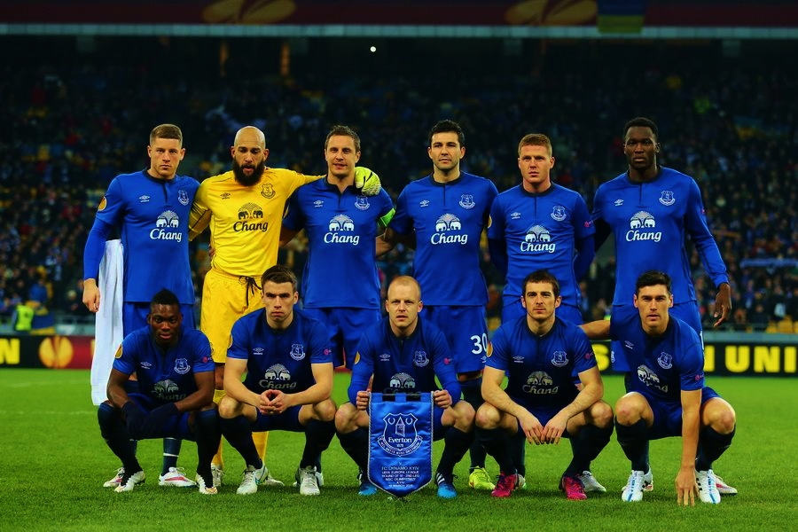 Everton FC 2015. Top row: Ross Barkley, Tim Howard, Phil Jagielka, Antolín Alcaraz, James McCarthy, Romelu Lukaku. Bottom row: Christian Atsu, Séamus Coleman, Steven Naismith, Leighton Baines, Gareth Barry.